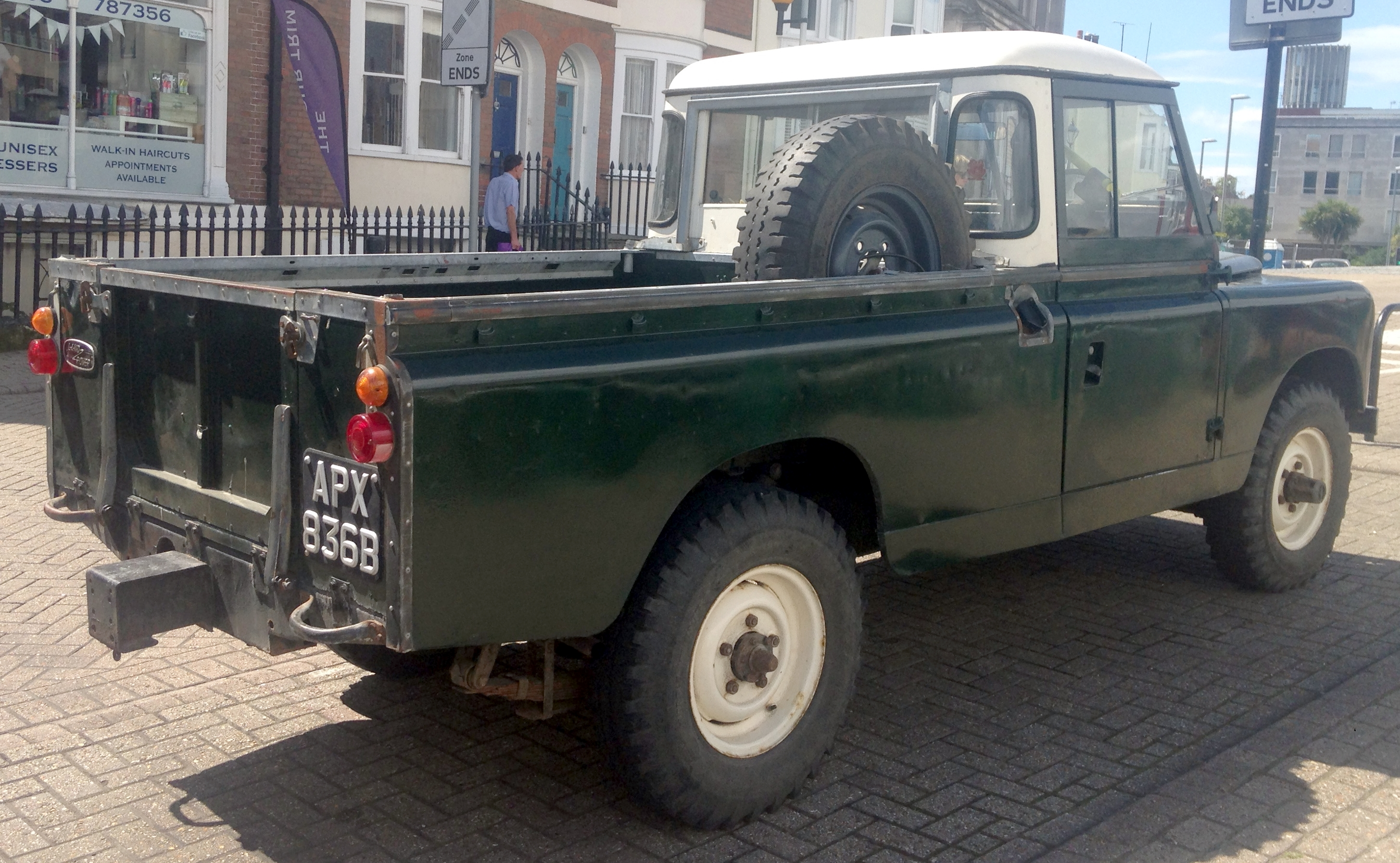 1964 Land Rover Series IIA 109 Pick-Up 2.2 Rear Taken in Weymouth, Dorset